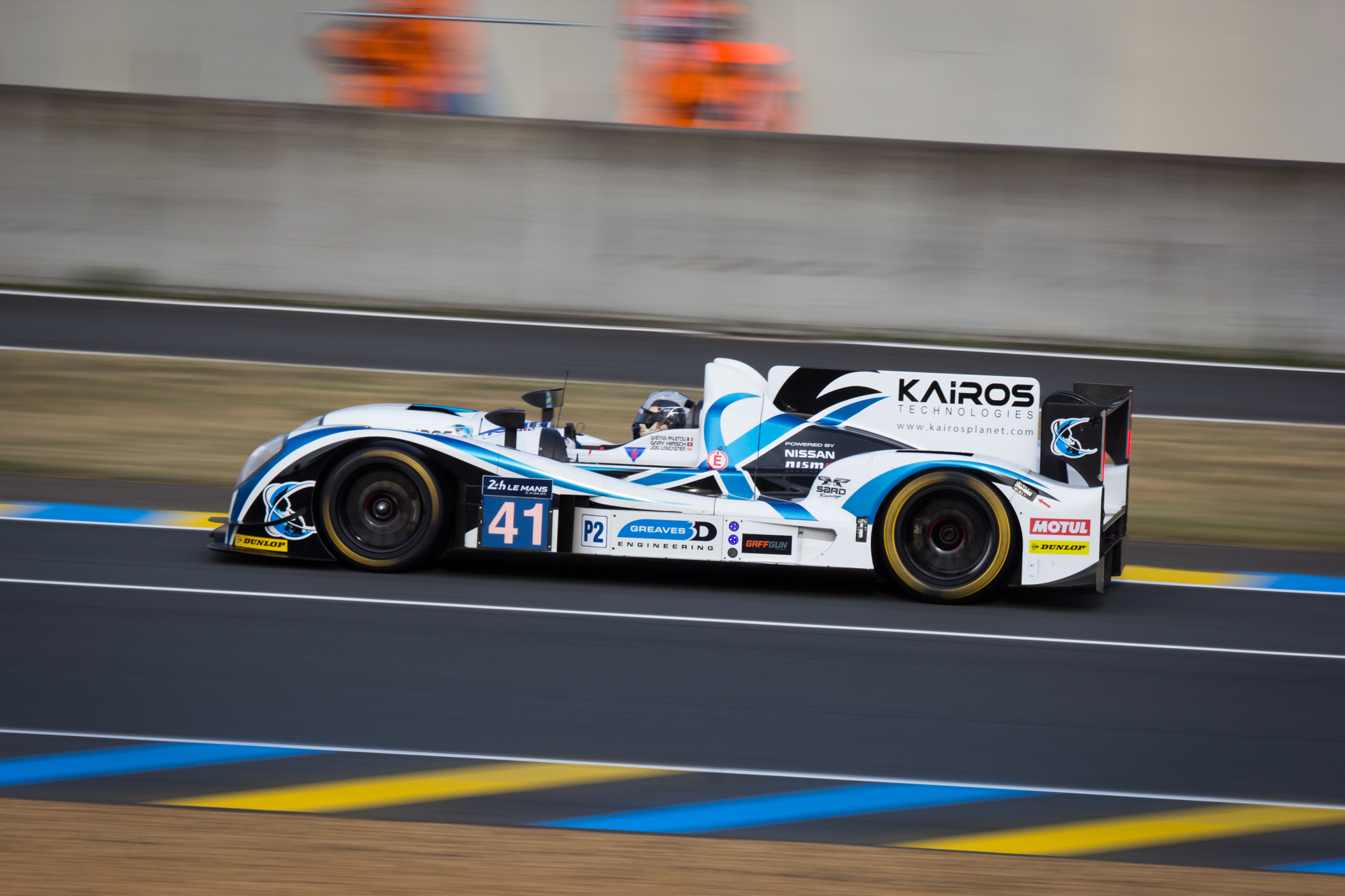 Drivers: Gary Hirsch, Gaëtan Paletou, Jon Lancaster